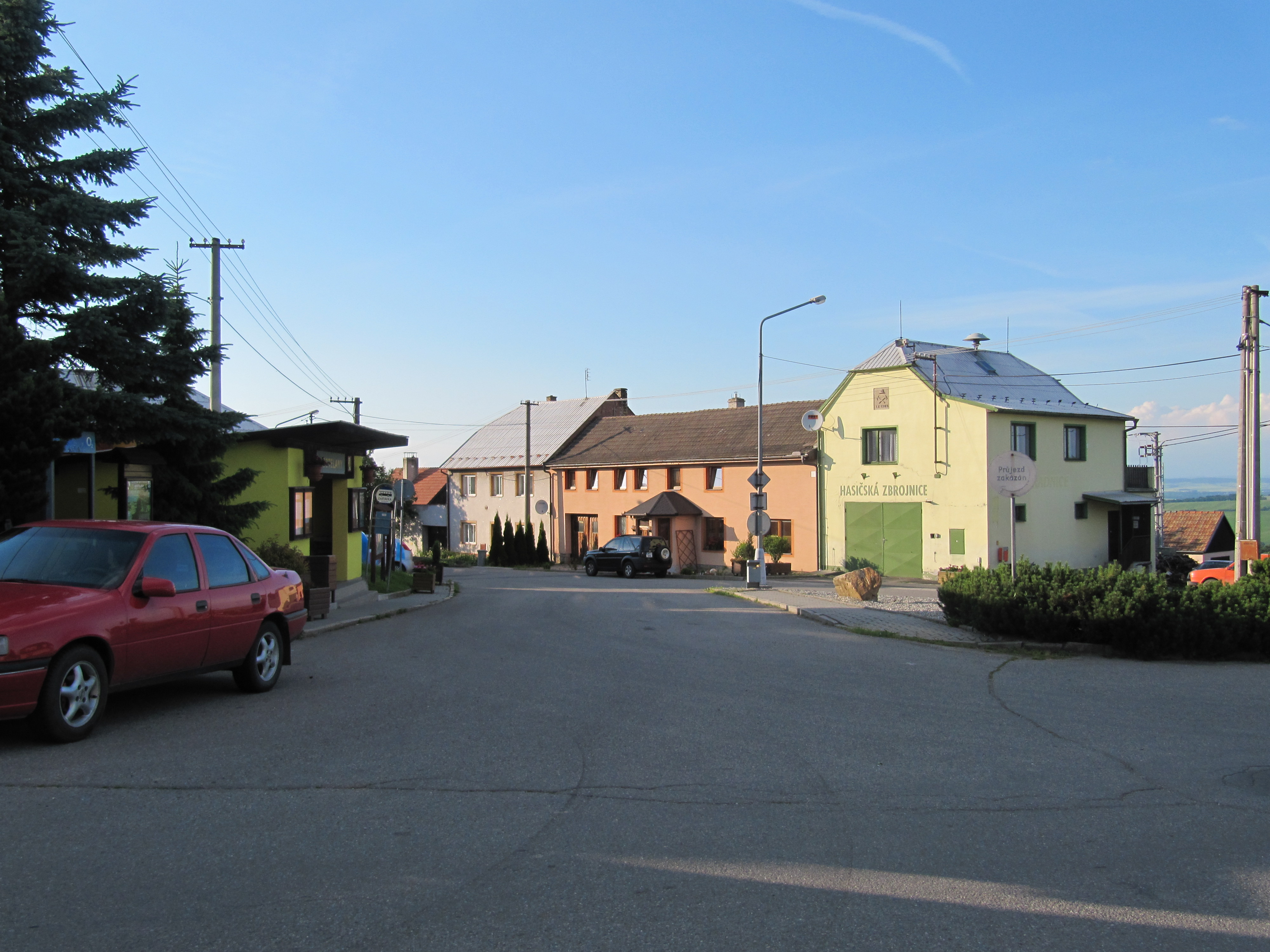 Kostelany in Kroměříž District, Czech Republic. Center.